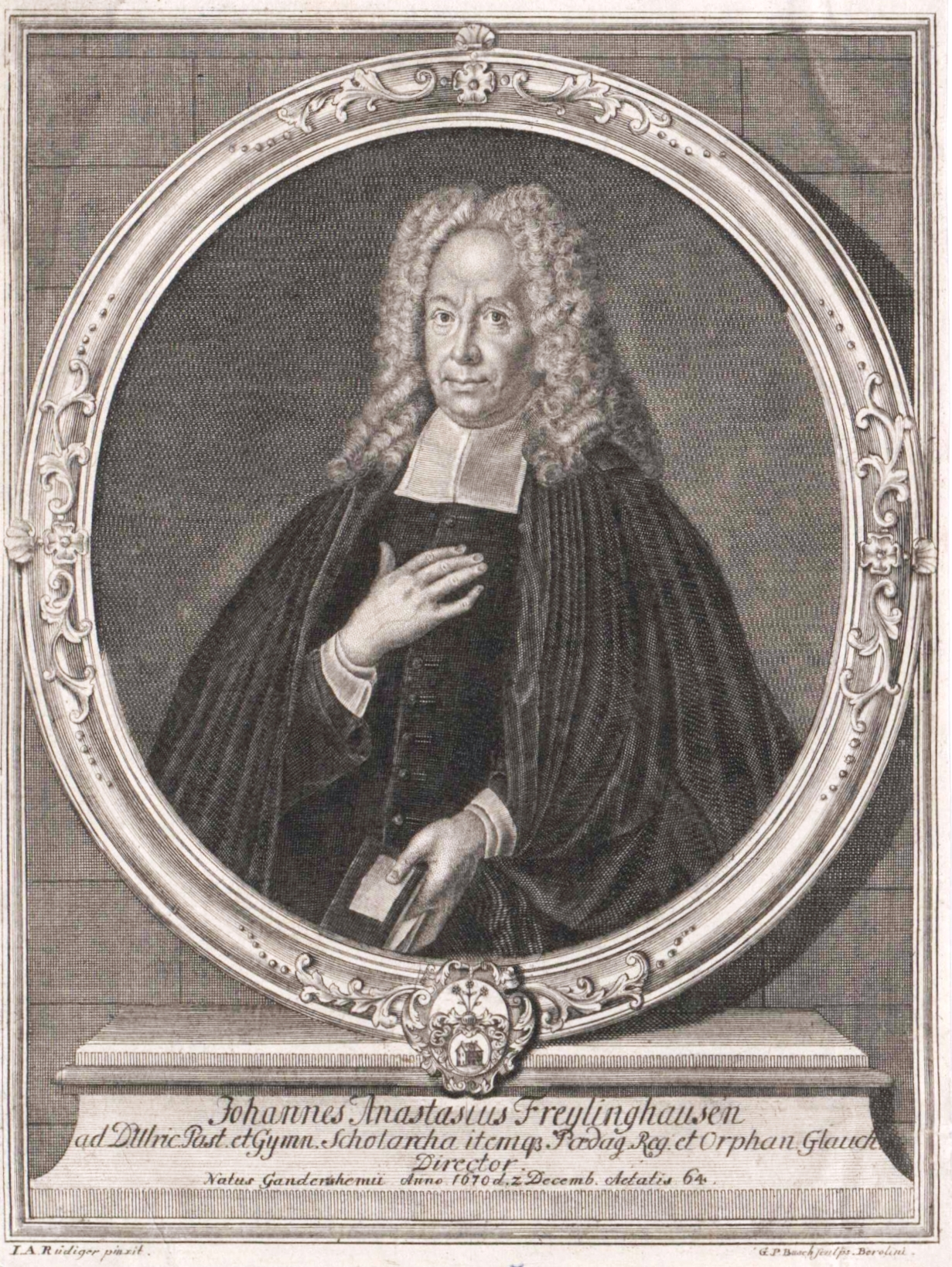 Johann Anastasius Freylinghausen, info after portrait gallery of Franckesche Stiftungen: Kupferstich / o. J. Bild: 198x151 mm; Platte: 208x159 mm